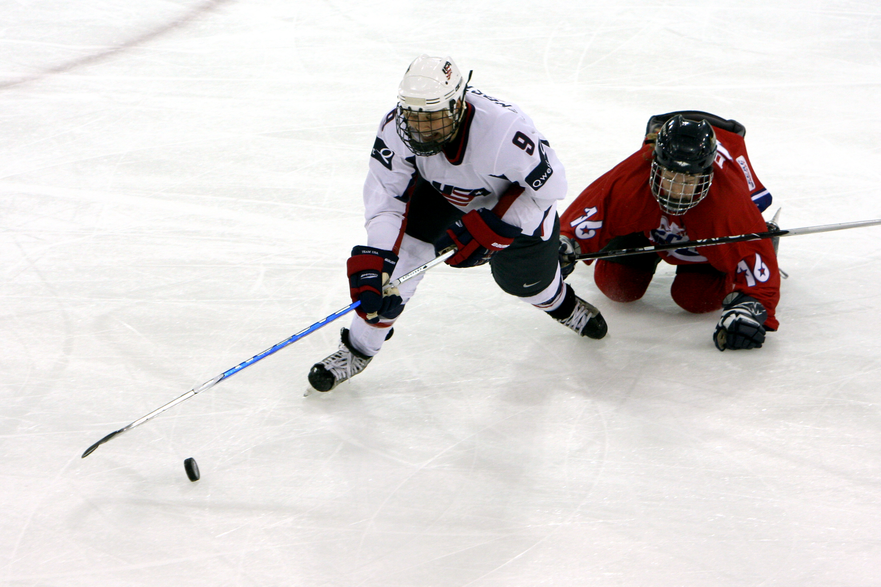 United States forward Molly Engstrom in a game against the ECAC All-Stars on January 3, 2010.